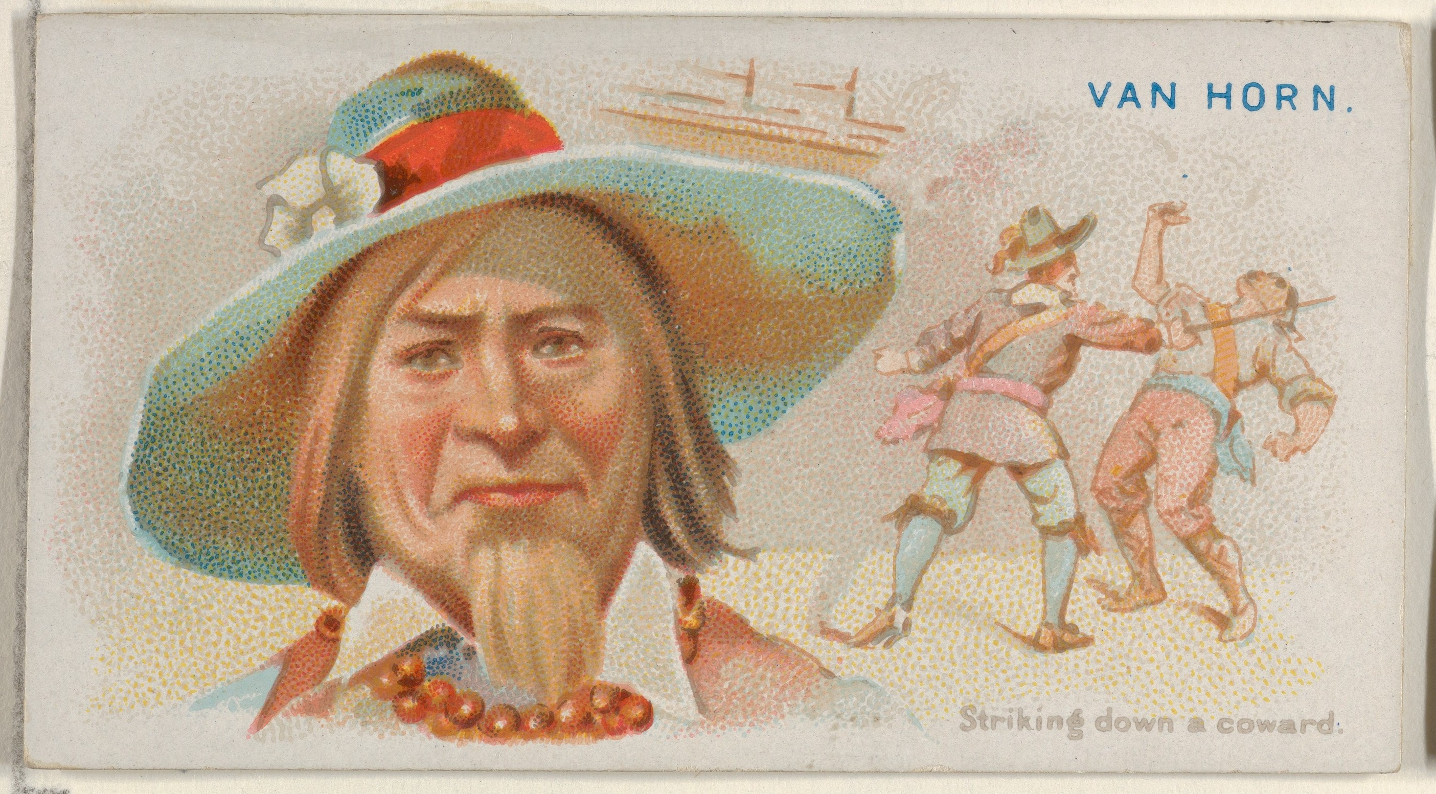 Print; Prints